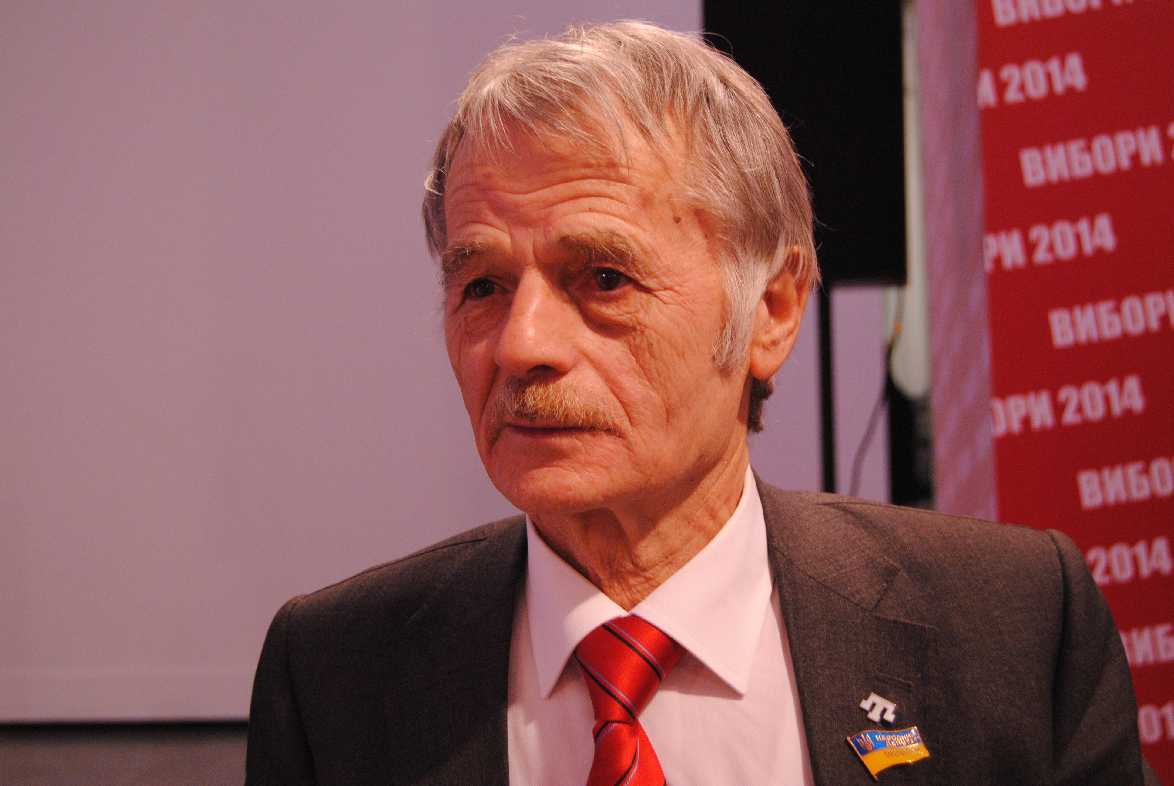 Mustafa Dzhemilev